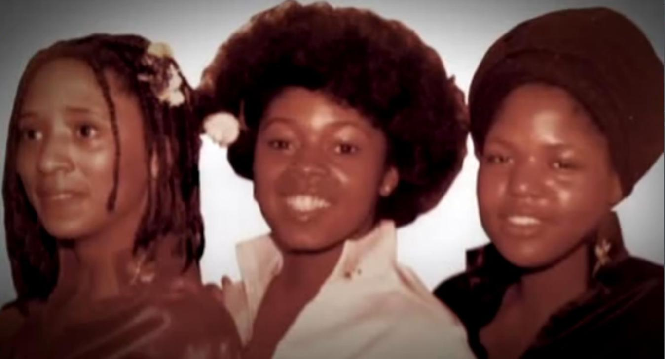 Brown Sugar: left - Carol Simms, centre - Caron Wheeler, right - Pauline Catlin. Rare picture of the group. Attribution-ShareAlike 3.0 Unported